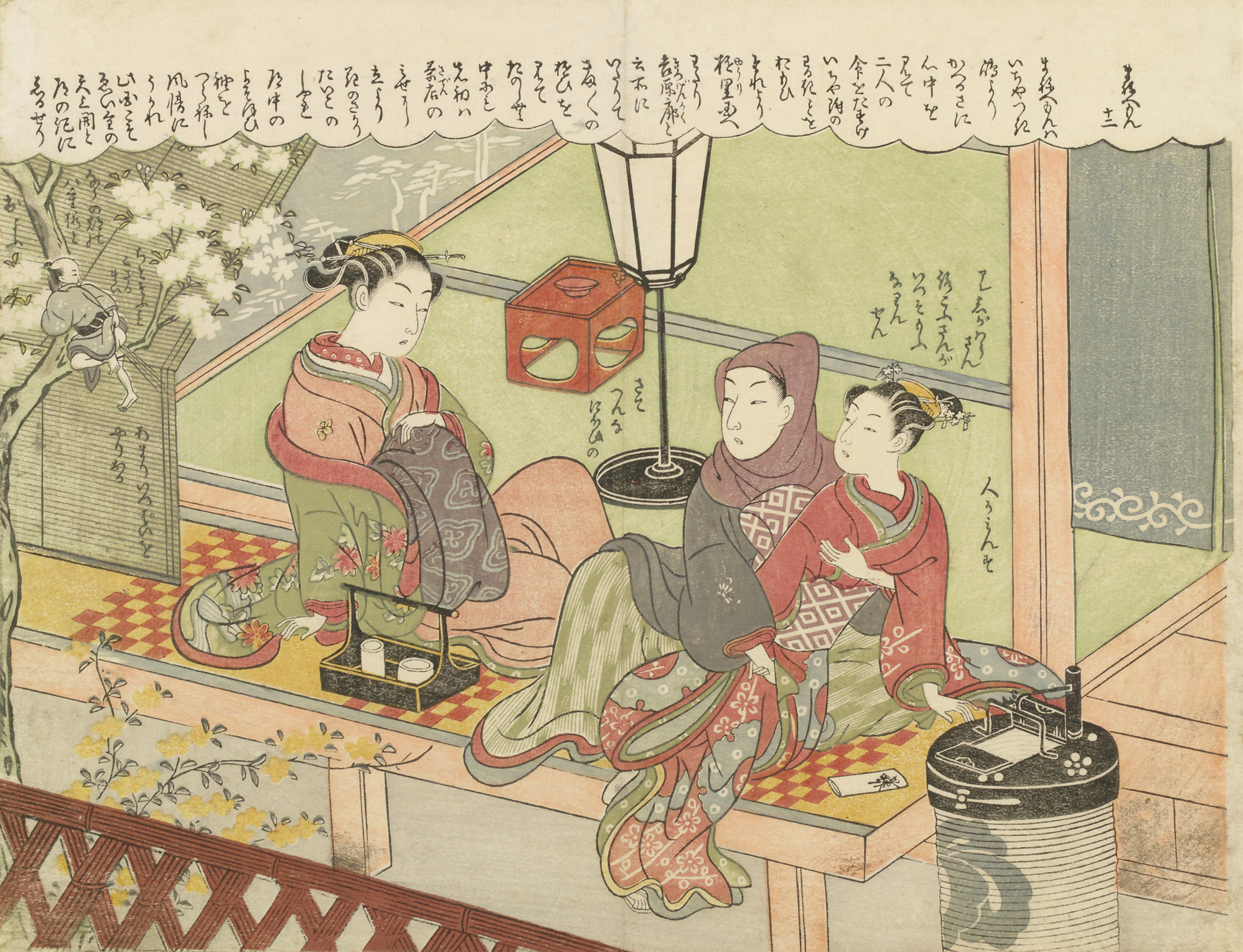 12 of 12 panels: Famous kabuki actor 瀬川菊之丞（二世）, a courtesan [花魁], and her apprentice [新造] sit on a porch while bean-sized "imitation man" Mane'emon farts unnoticed in a nearby cherry tree 桜.